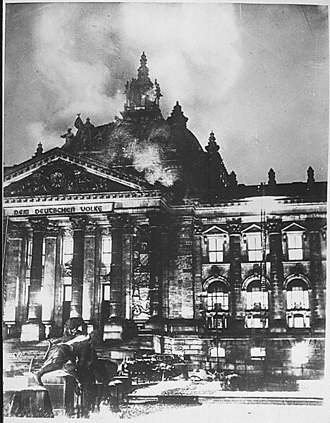 Firemen work on the burning Reichstag Building in February, 1933, after fire broke out simultaneously at 20 places. This enabled Hitler to seize power under the pretext of "protecting" the country from the menace to its security.